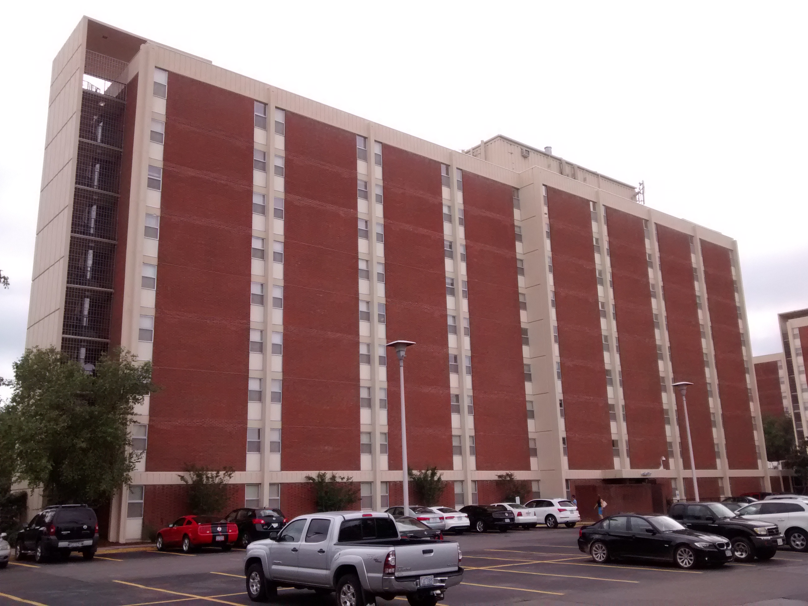 East Tower of Granville Towers at the University of North Carolina at Chapel Hill.